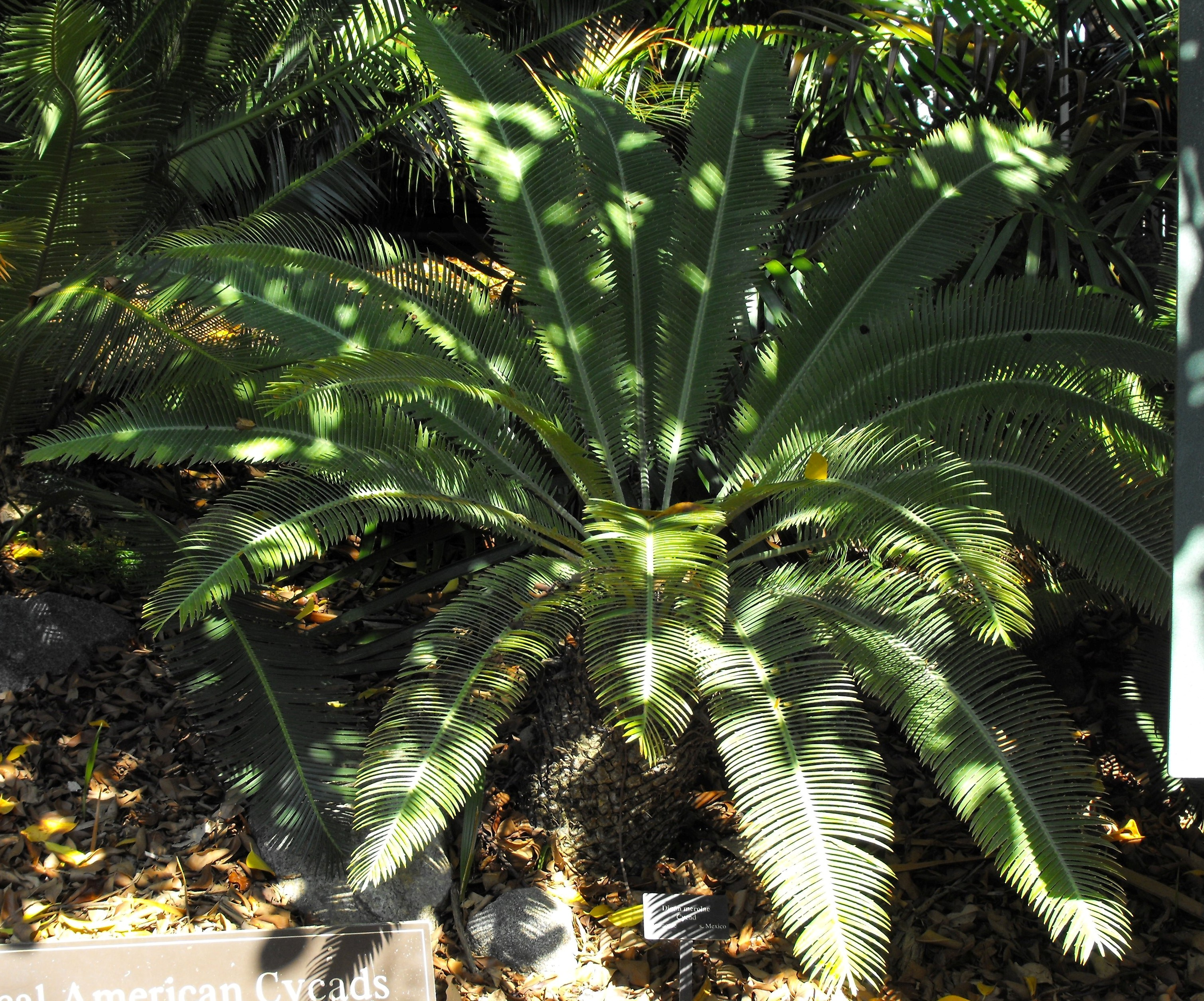 Dioon merolae at the San Diego Zoo, California, USA. Identified by sign.